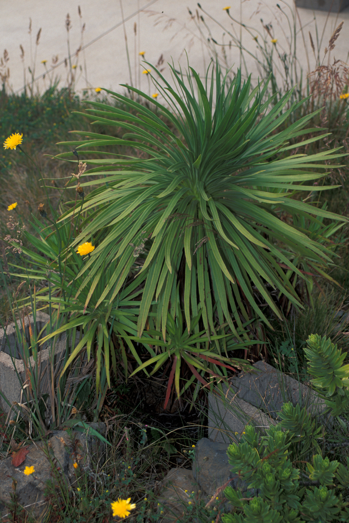 Argyroxiphium grayanum (habit). Location: Maui, Housing Haleakala National Park